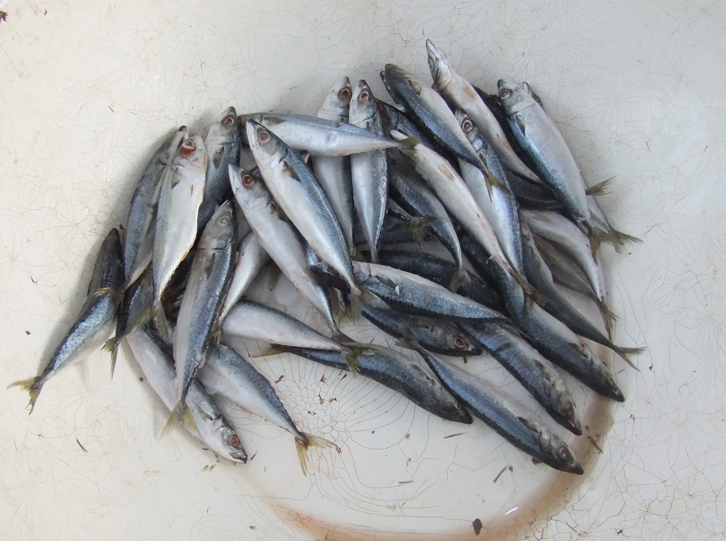 Fish (Scomber australasicus), Pelabuhan Ratu Fish Market, Sukabumi